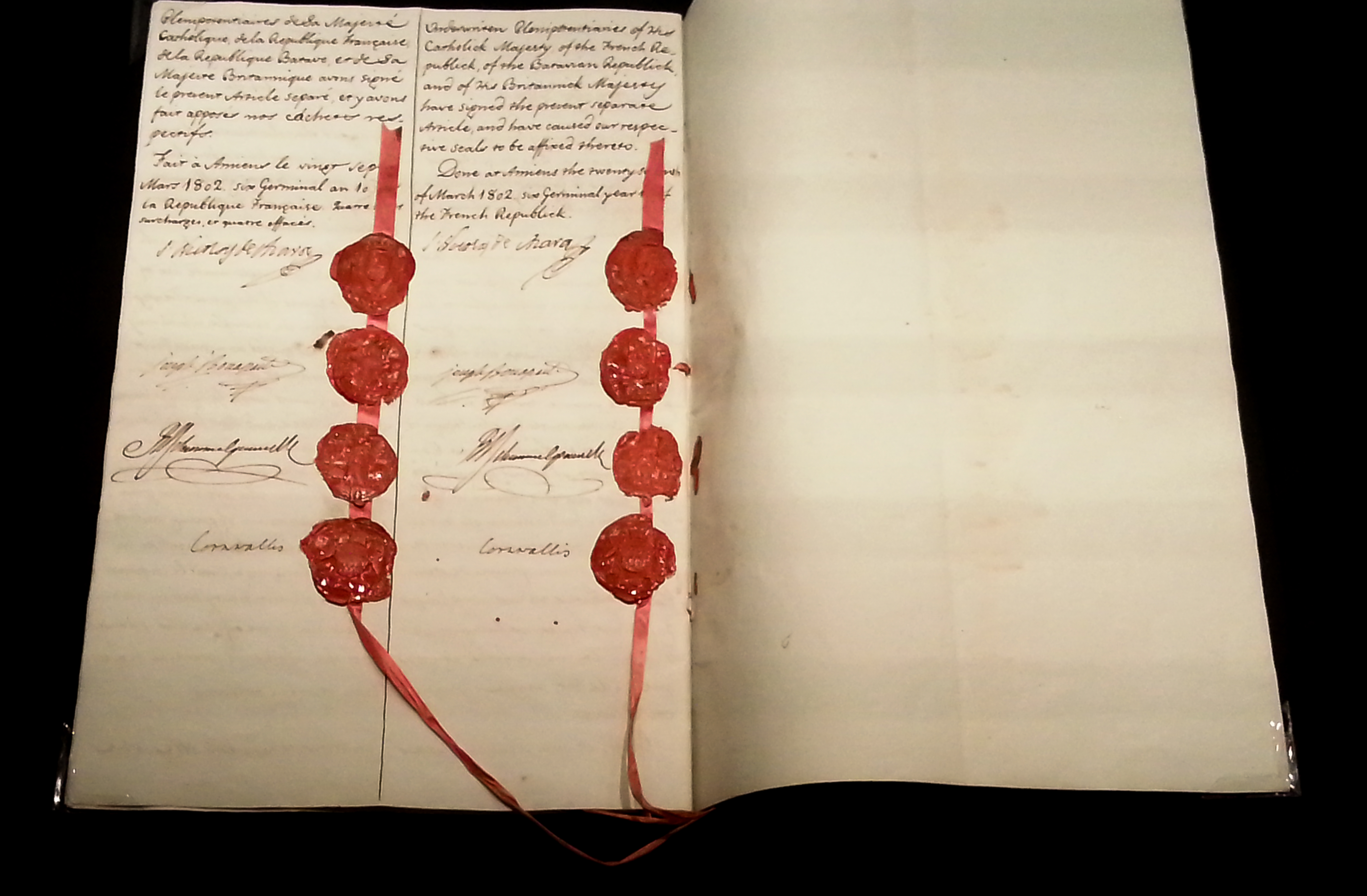 Final peace treaty between H.M. the King of Spain and the Indies, the French Republic and the Batavian Republic on the one hand, and the King of the United Kingdom of Great Britain and Ireland, George III, on the other. Signed at Amiens on March 27, 1802. Written signatures, ink on paper. Eight red wax seals. Archive of the Ministry of Foreign Affairs and Cooperation of Spain, located in Madrid.